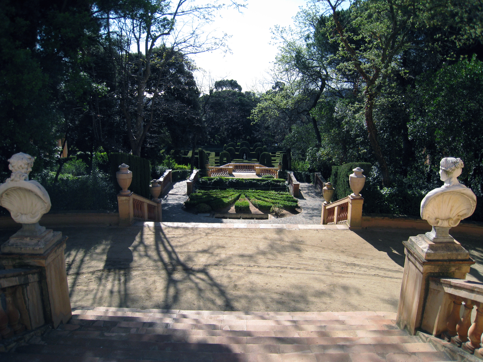 Staircase in the Parc del Laberint d’Horta in Barcelona, Catalonia (Spain).